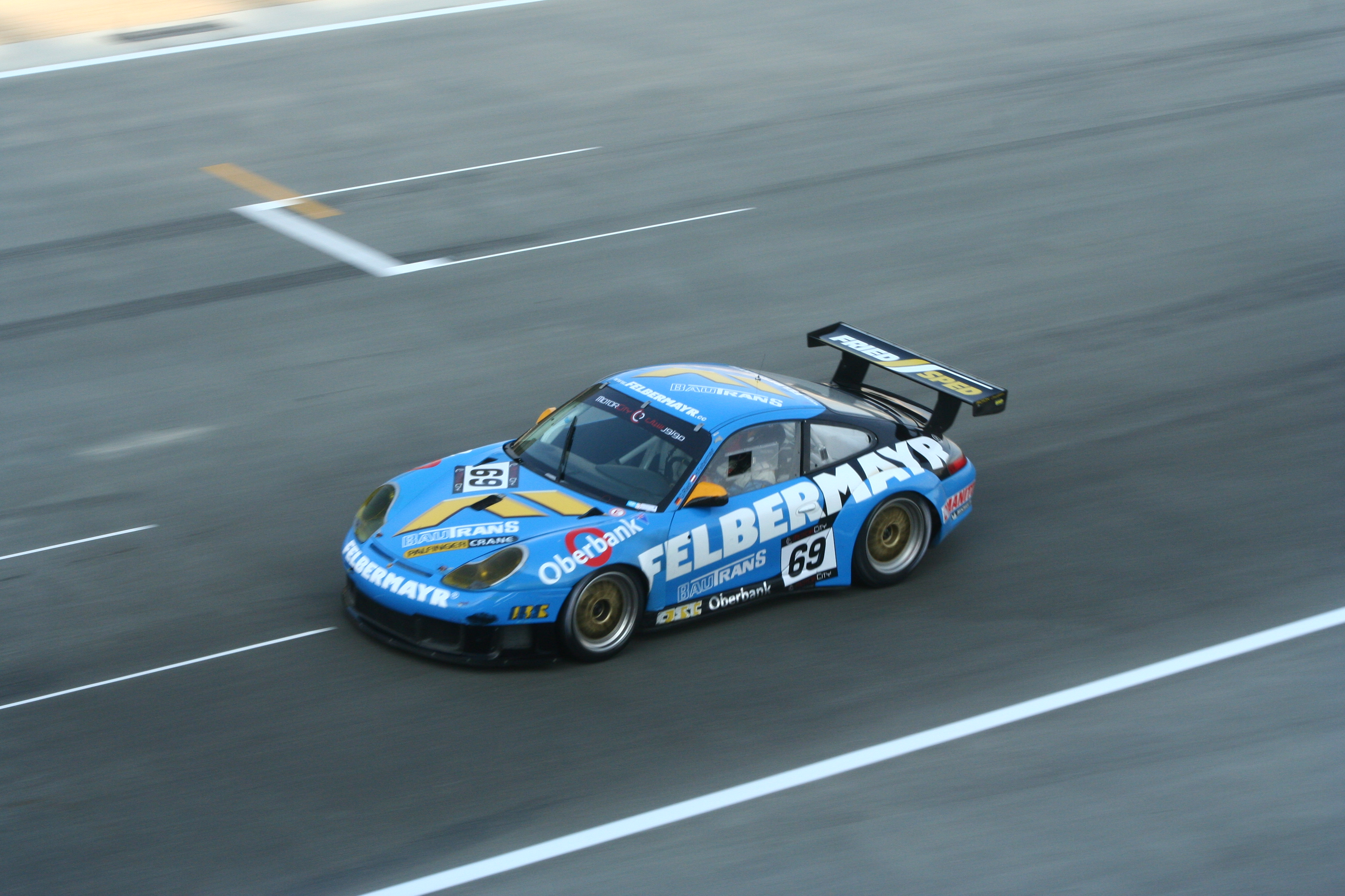 The Team Felbermayr-Proton Porsche 996 GT3-RS at the Dubai Motorcity 500